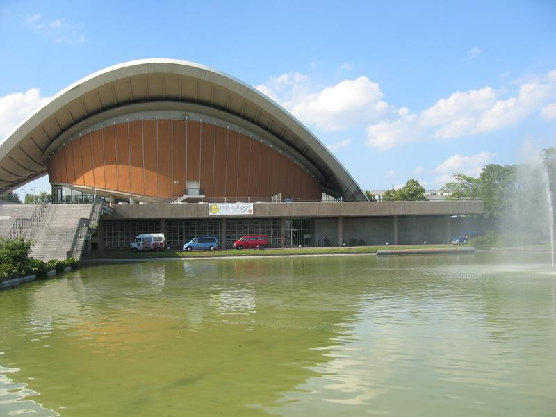 Congress hall (Kongresshalle) in Berlin, Germany